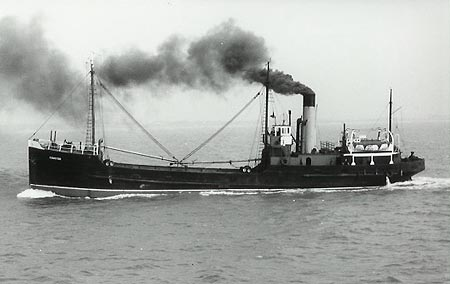 Conister (I)